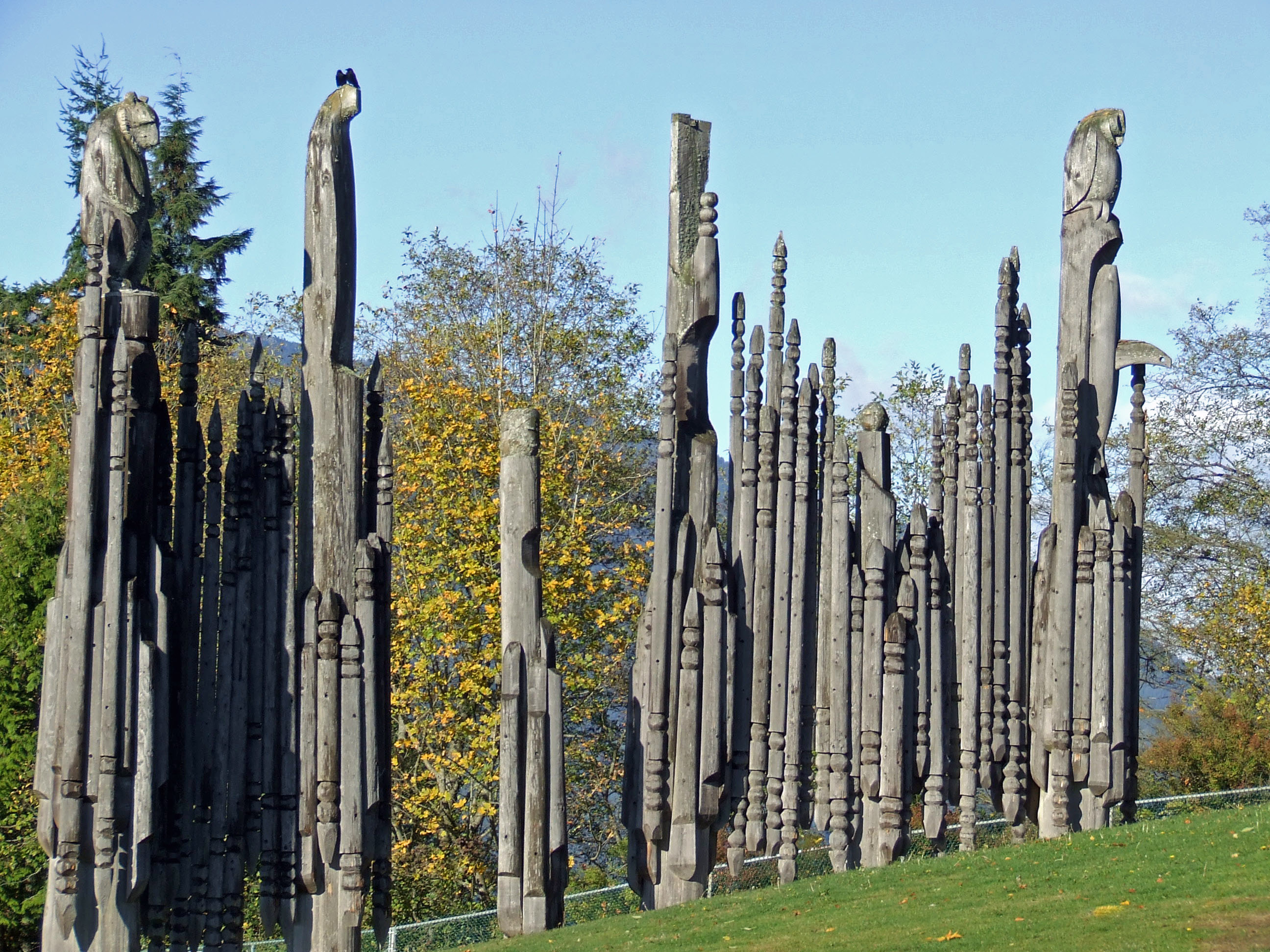 Ainu poles from Burnaby's twin city, Kushiro, Japan. To learn more